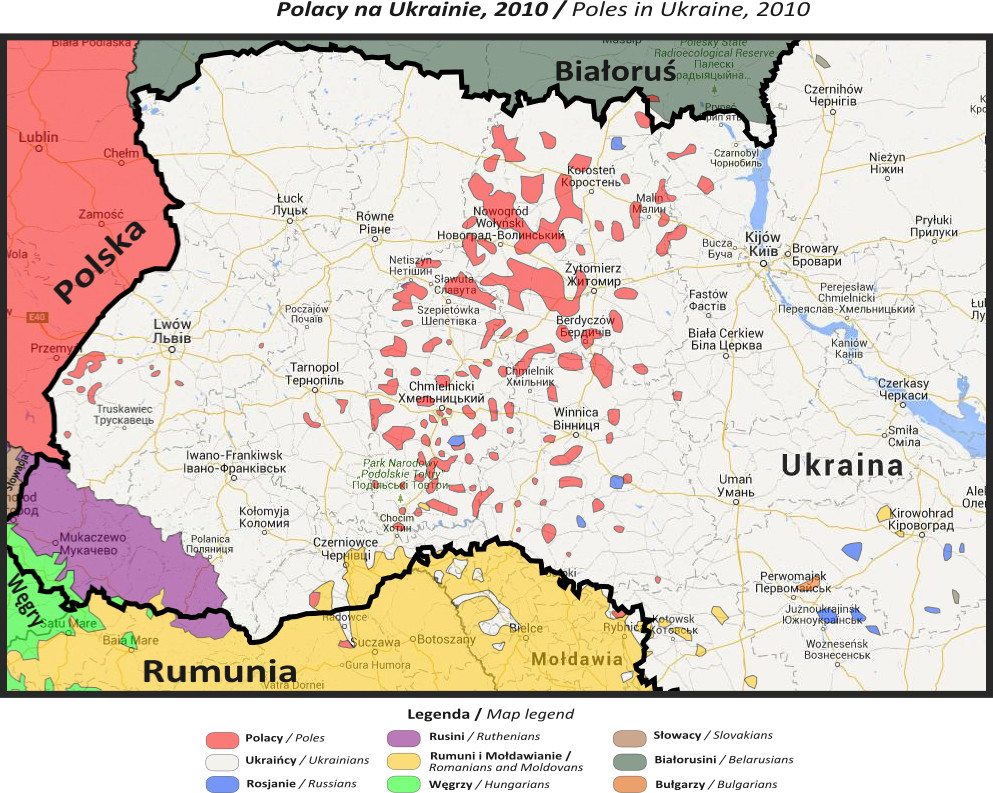 Polish minority in Ukraine